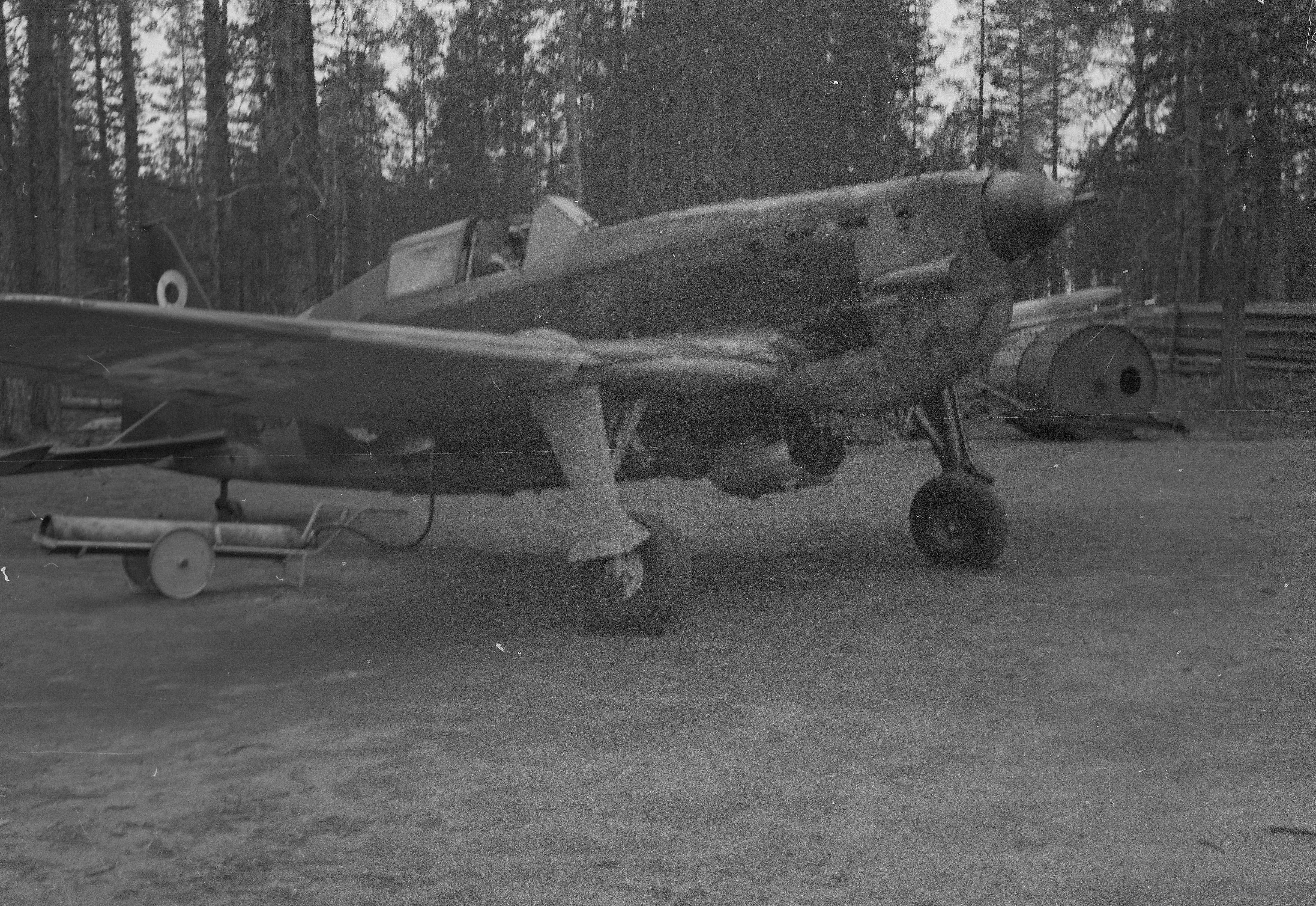 Morane-Saulnier M.S.406 in Finnish service.